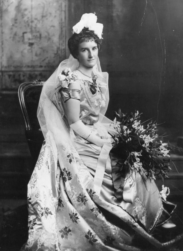 Agnes Melanie Dickson wearing British Court dress for her presentation, with ostrich feathers and long train